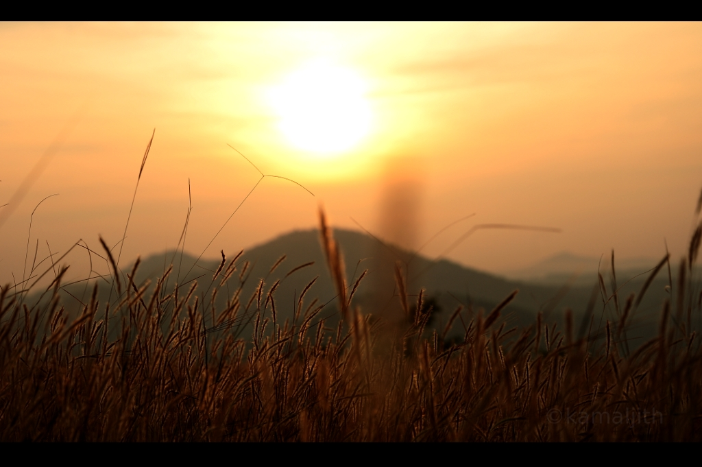 Vazhayur is a village in Malappuram, Kerala